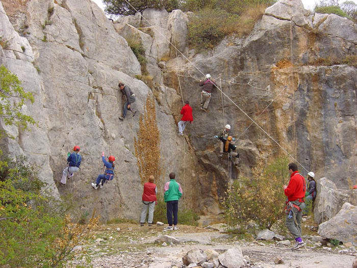 Picture of a caving rescue exercice in France